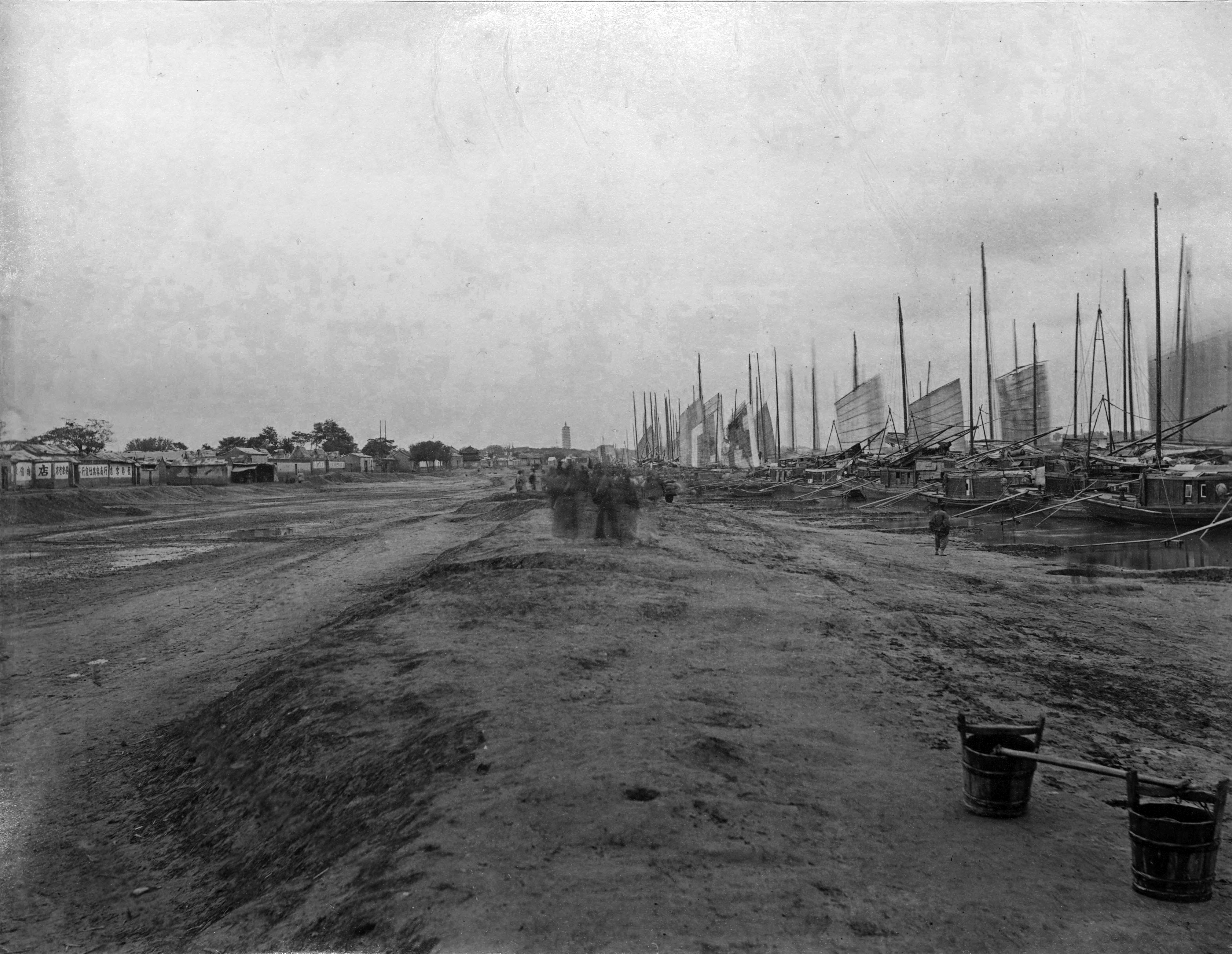 Photograph in Album of photographs of Peking and its environs.